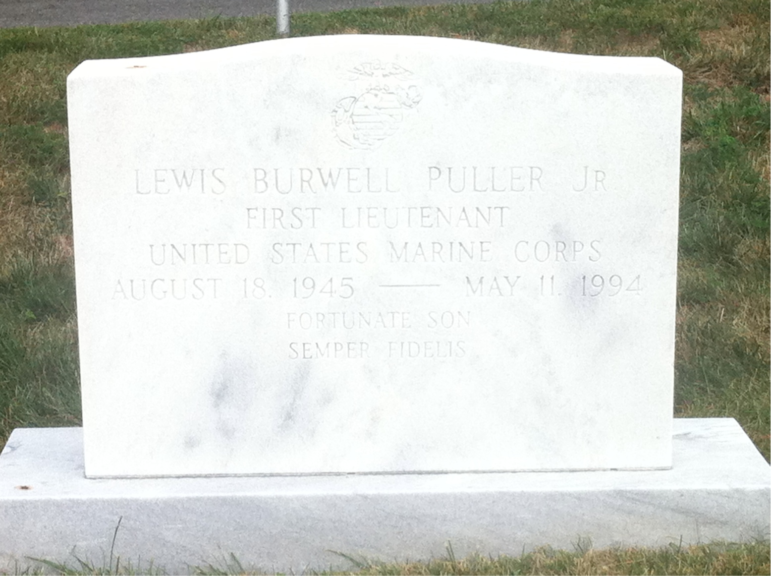 Grave of Lewis Burwell Puller Jr. at Arlington National Cemetery